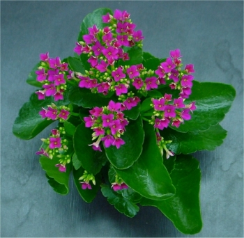 Photograph of Kalanchoë blossfeldiana taken by David Hughes of and used with permission. Picture easily traced to this website. I emailed author for permission to keep/or remove. - Marshman 02:29, 26 Feb 2005 (UTC) David Hughes responded (2/27/2005) as follows: "Thank you for contacting me, the picture was added with my permission. You may use the picture of Kalanchoe blossfeldiana if proper credit is given. Best regards, David"